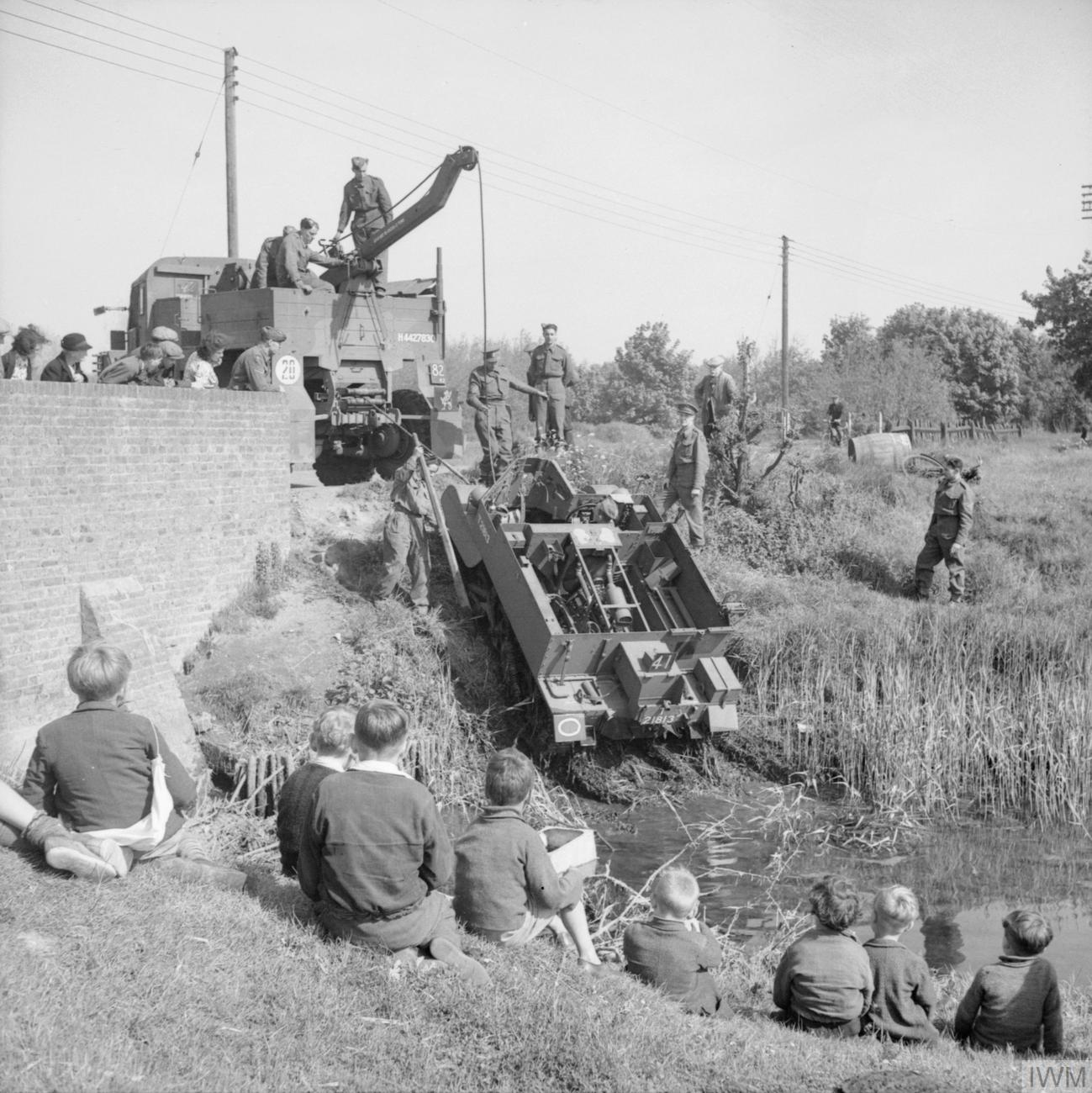 The British Army in the United Kingdom 1939-45 A Universal carrier of 53rd Division being hauled out of a stream by a Scammell breakdown lorry of No.2 Recovery Section, Royal Army Ordnance Corps, near Ore in Sussex, 3 June 1941. A gaggle of small boys watches with interest from the bank.